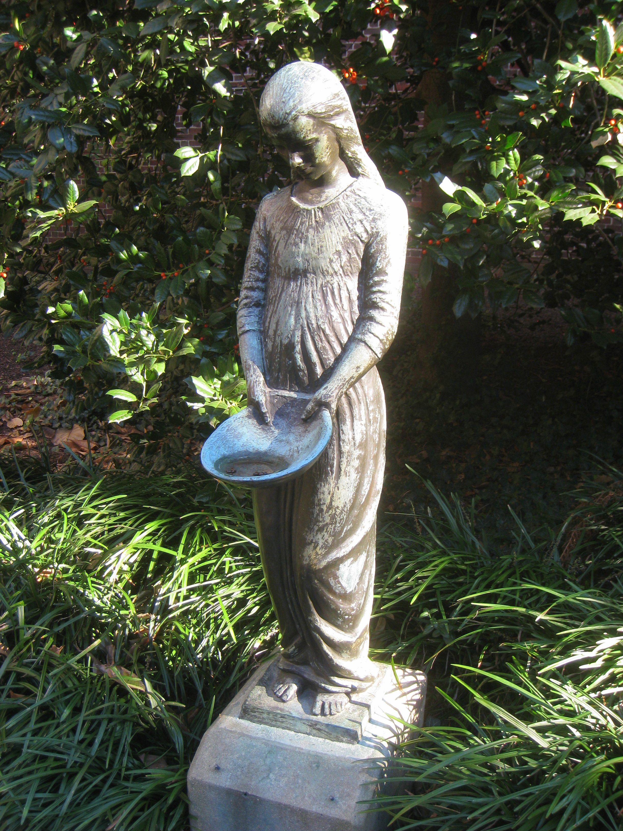 Benjamin Rush Medicinal Plant Garden, at the College of Physicians of Philadelphia, 19 S. 22nd St. Philadelphia , Pennsylvania, USA.